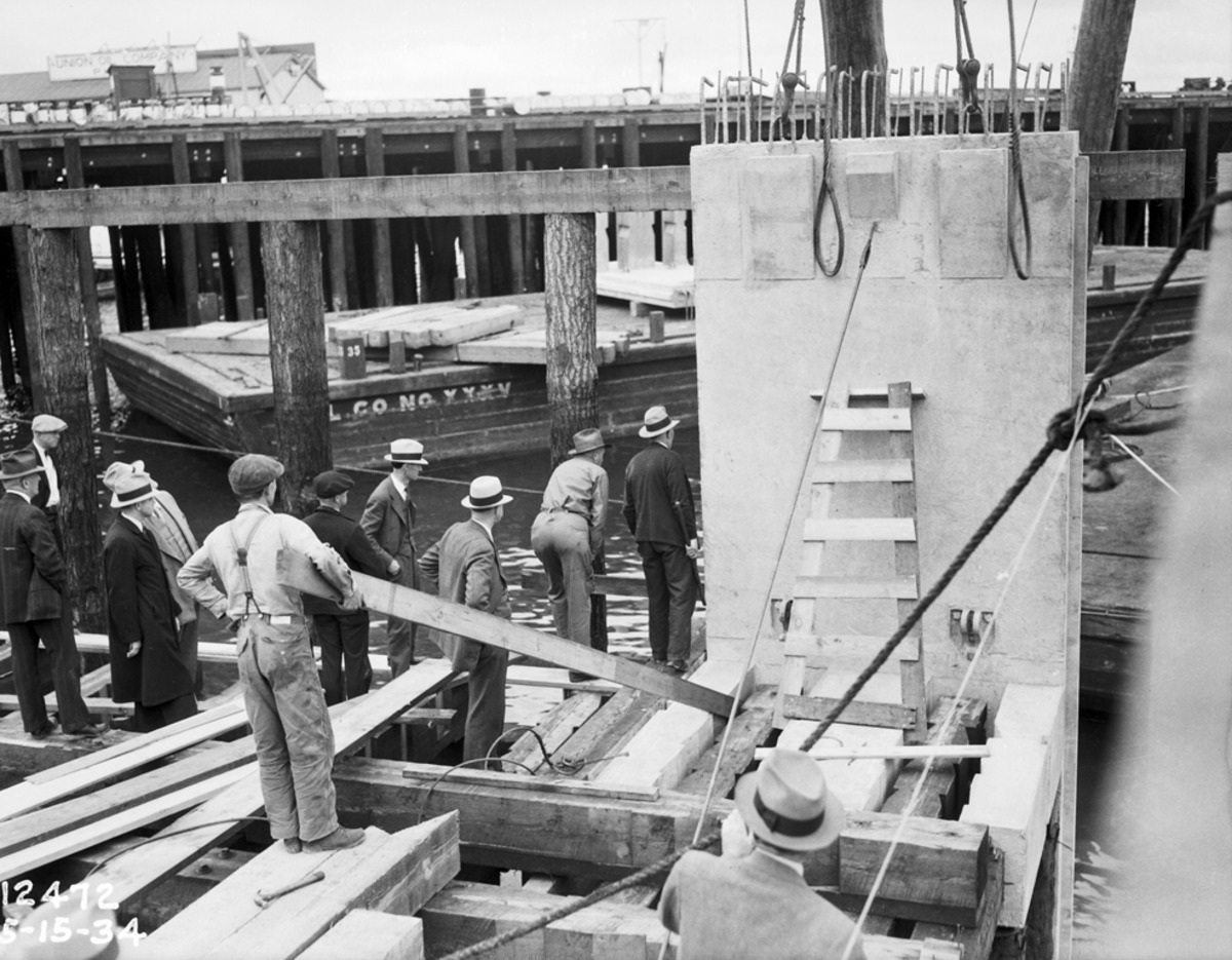 First slab of Seattle Central Waterfront seawall being placed, 1934.Item 8845, Engineering Department Photographic Negatives (Record Series 2613-07), Seattle Municipal Archives.